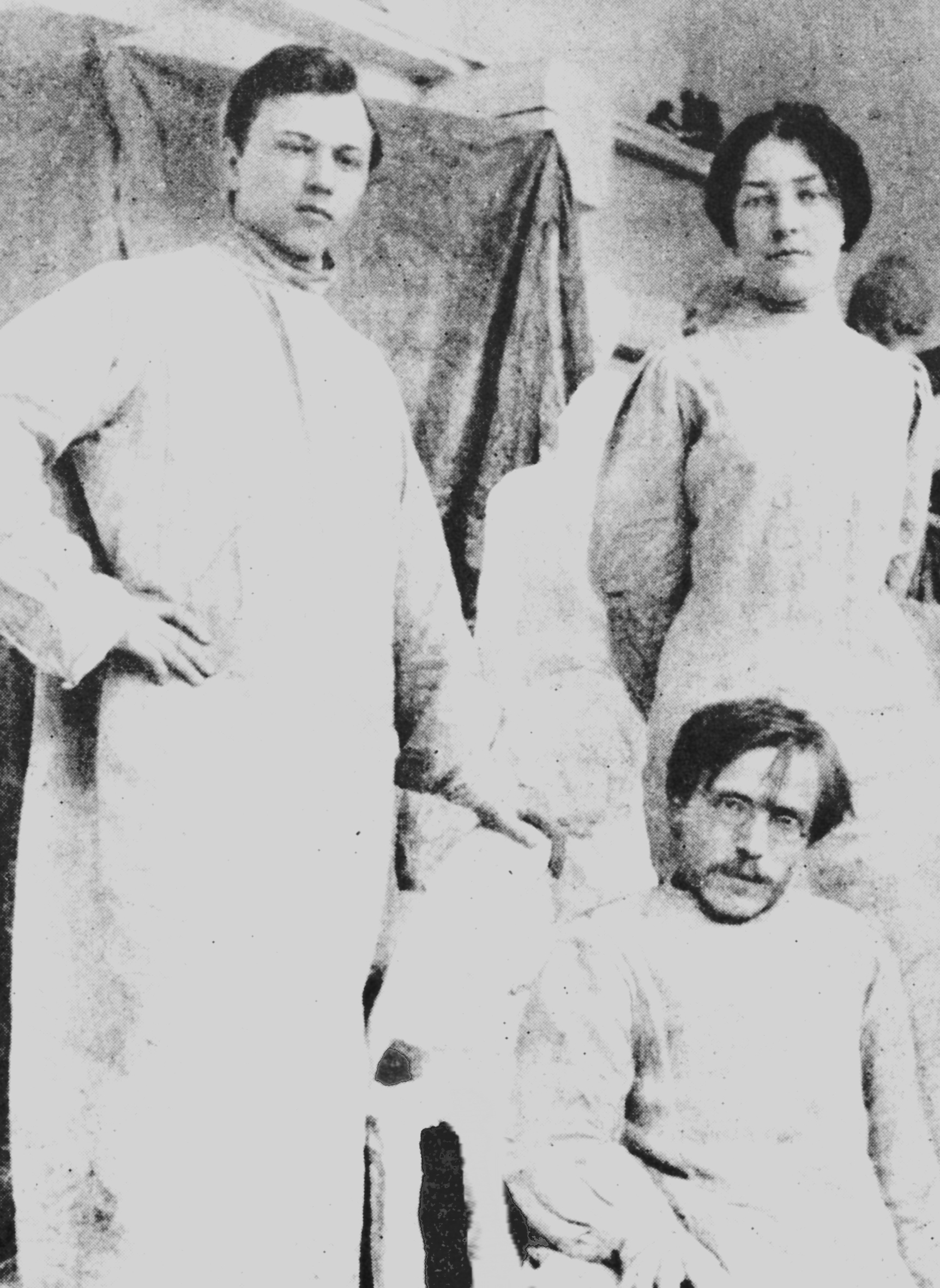 I. Shuklin, A. Matveev and A. Brusketti in the studio of Paolo Trubeckoy. 1898